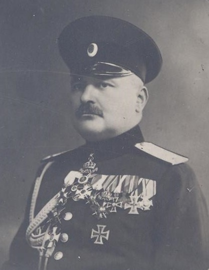 Bulgarian general Nikola Bakardzhiev, 1931-1932